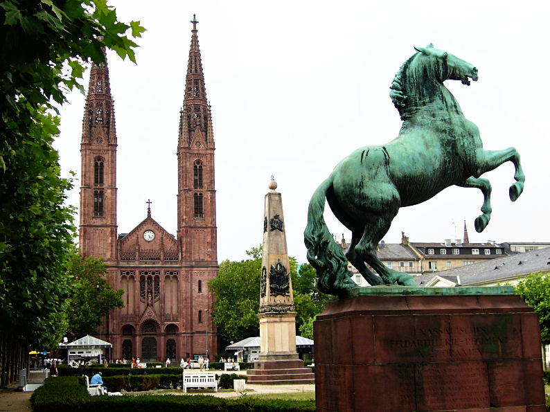 This is the Luisa-platz in Wiesbaden with the "Bonifatiuskirche" in the background. Shot by Laurenz Bobke